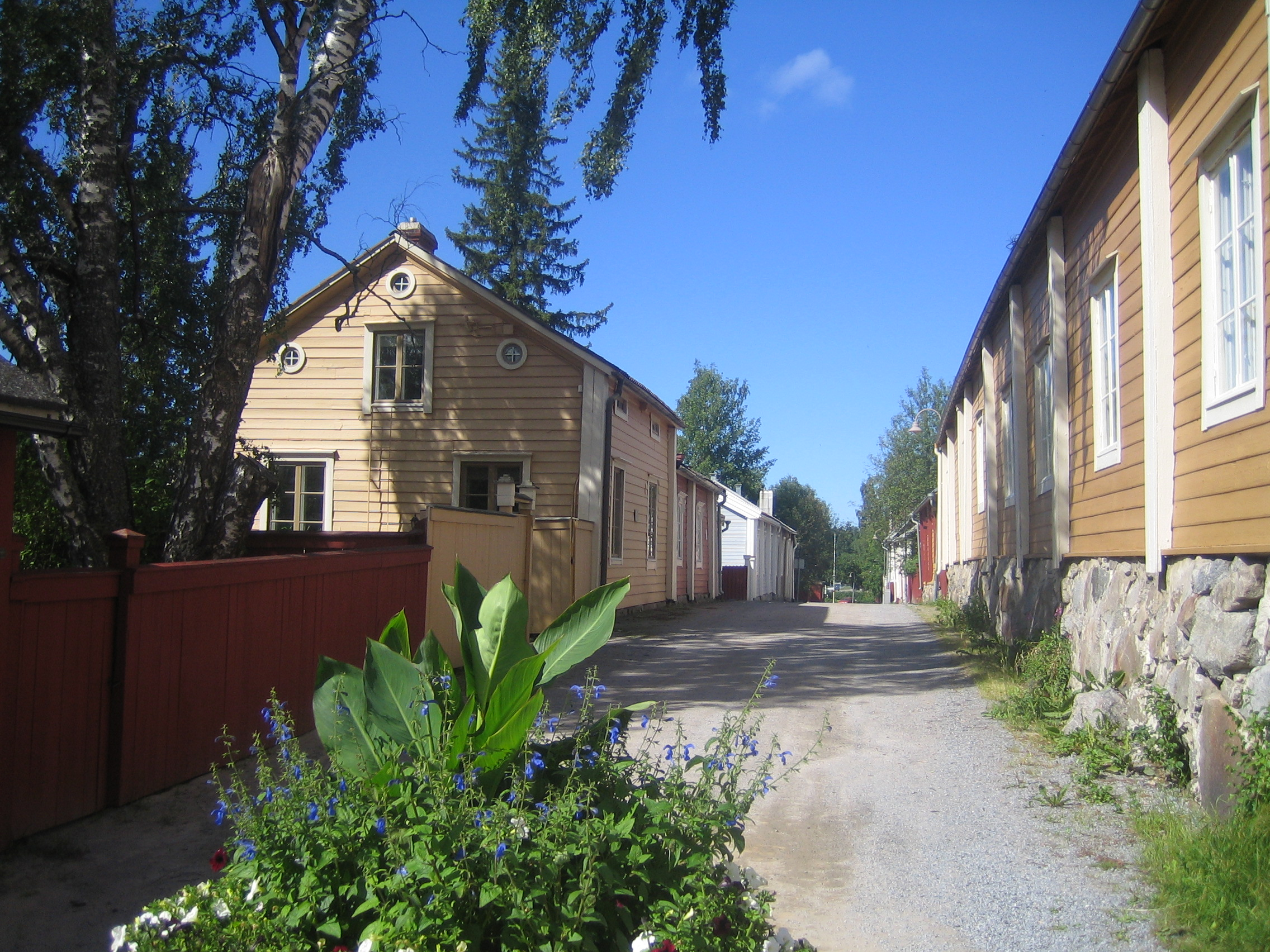 Old houses in Norrmalm (Skata), Jakobstad, Finland.